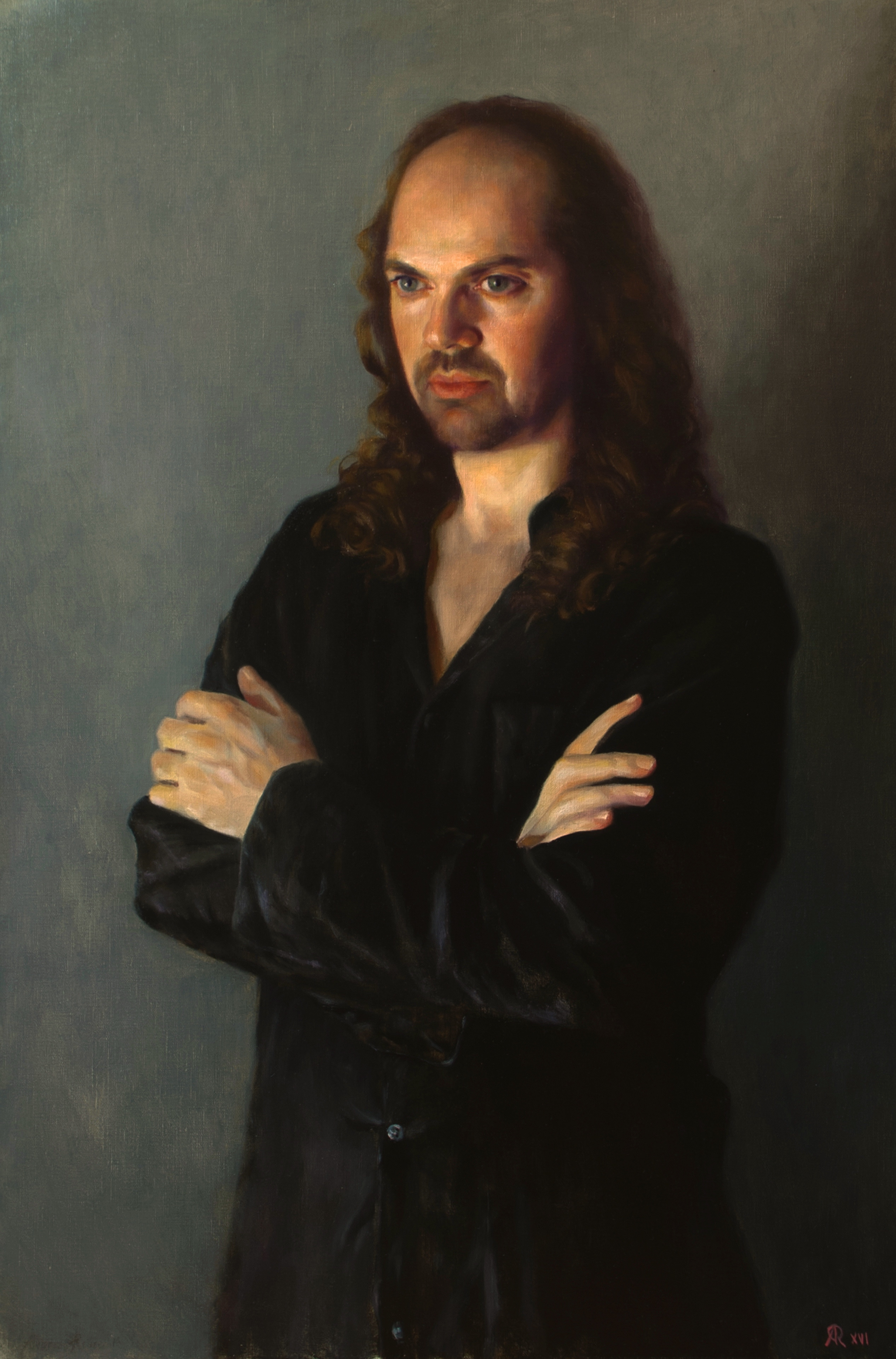 "Memento" Portrait of composer Octavio Vazquez. Oil on linen. 36 x 24 inches